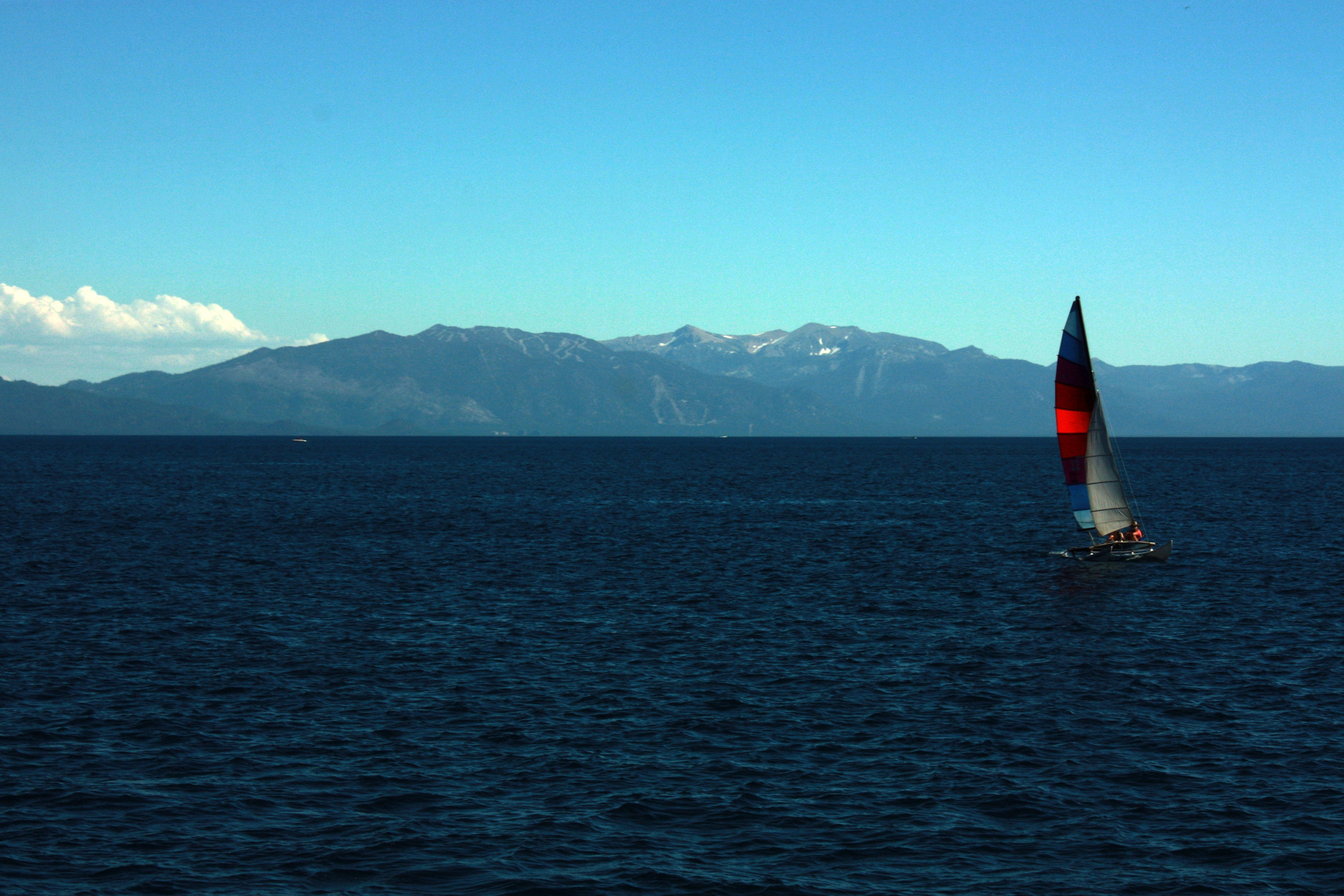 A view of Lake Tahoe from Crystal bay